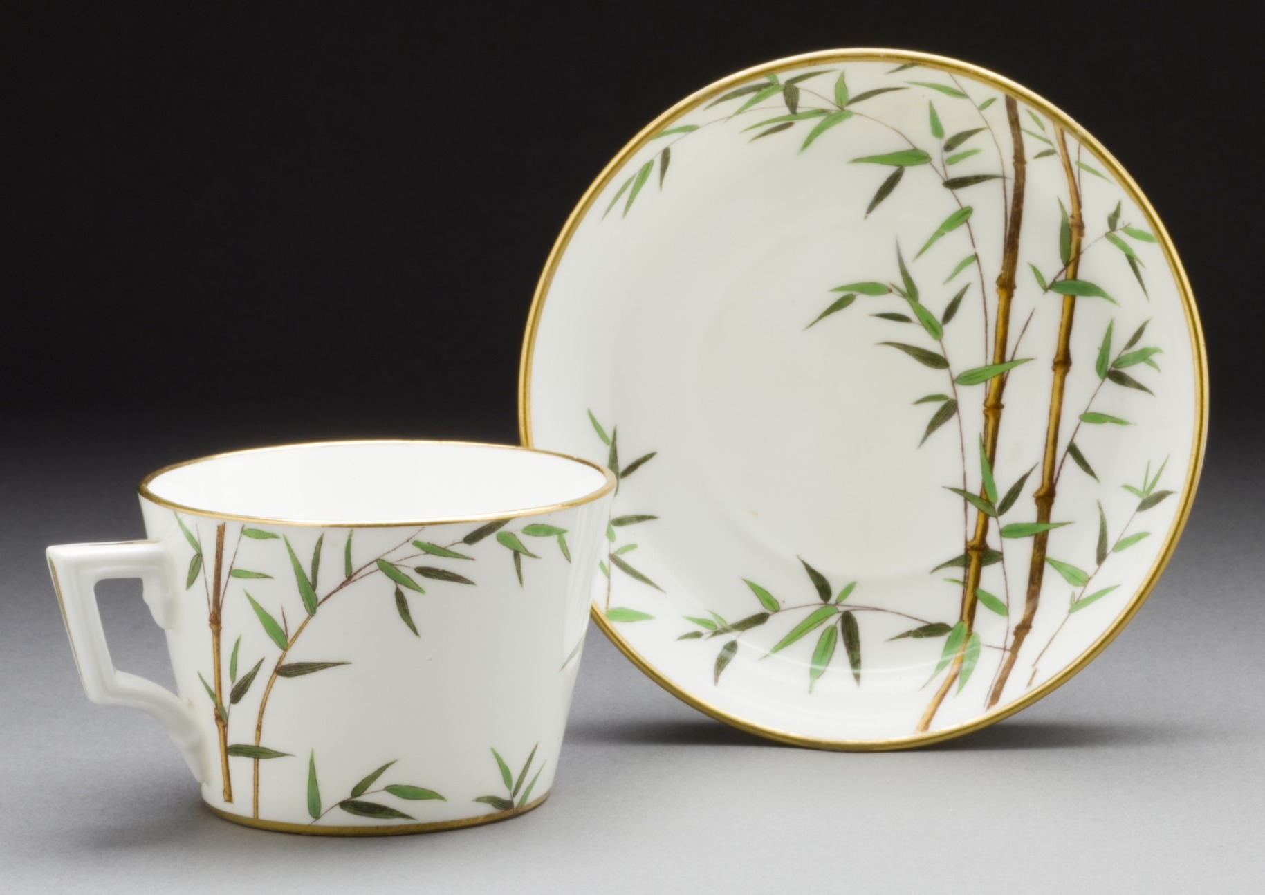 England, circa 1875 Collection: Ellen Palevsky Cup Collection Furnishings; Serviceware Hand painted porcelain Cup height: 2 1/16 in. (5.24 cm), Diameter: 3 1/16 in. (7.78 cm); Saucer height: 1 in. (2.54 cm), Diameter: 4 3/4 in. (12.07 cm) Gift of Max Palevsky (AC1998.265.7.1-.2) Decorative Arts and Design